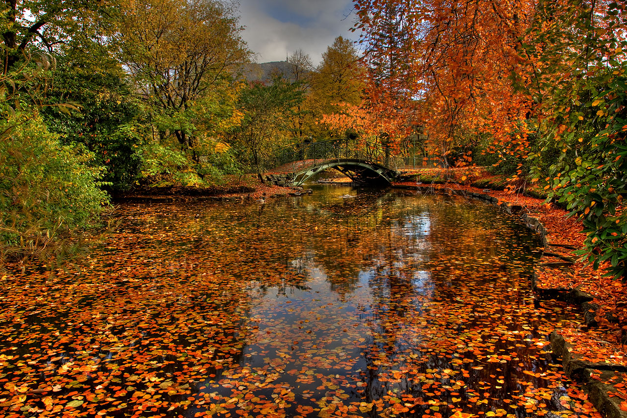 Autumn in Nygårdsparken, Bergen Norway